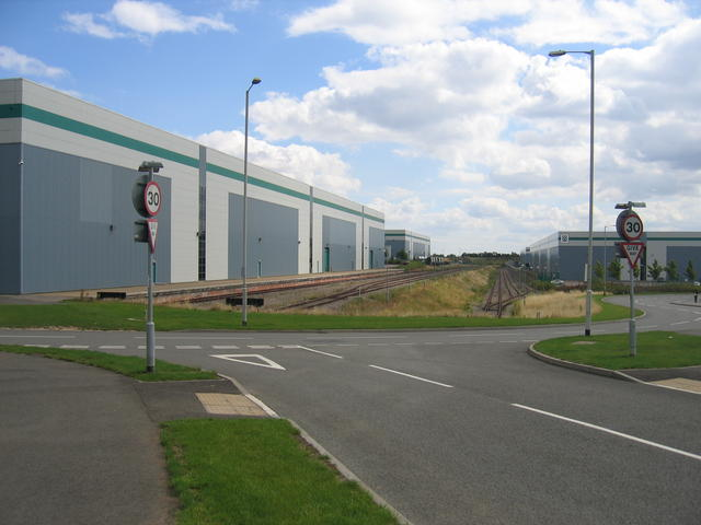 Redevelopment at Coventry Colliery, Keresley. The railway sidings formerly served Coventry Colliery which occupied the east of this square and some of the adjacent squares. As can be seen from the large new buildings, a substantial amount of redevelopment has taken place on this site since the colliery closed. The colliery commenced operation in 1917 and the railway connection was added in 1919. The colliery closed in 1993.